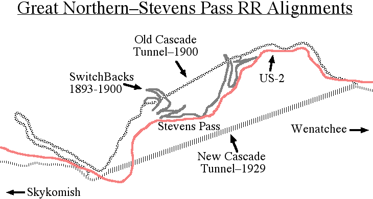 Diagram of two tunnels, switchbacks and US-2 at Steven Pass, WA.